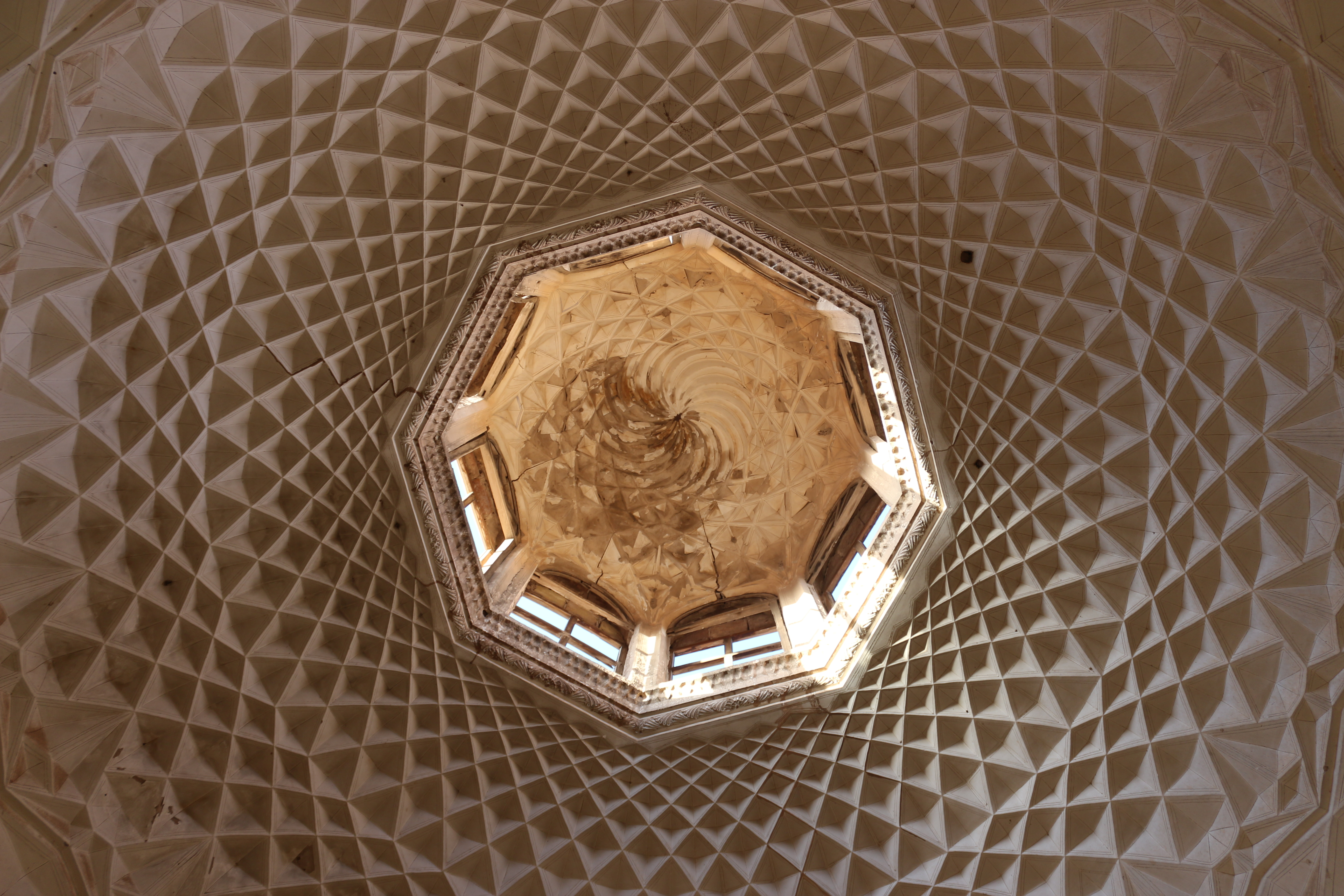 World nematollahi clan mansion camel throat Mahan, Kerman Qajar period with dome, building in Iran